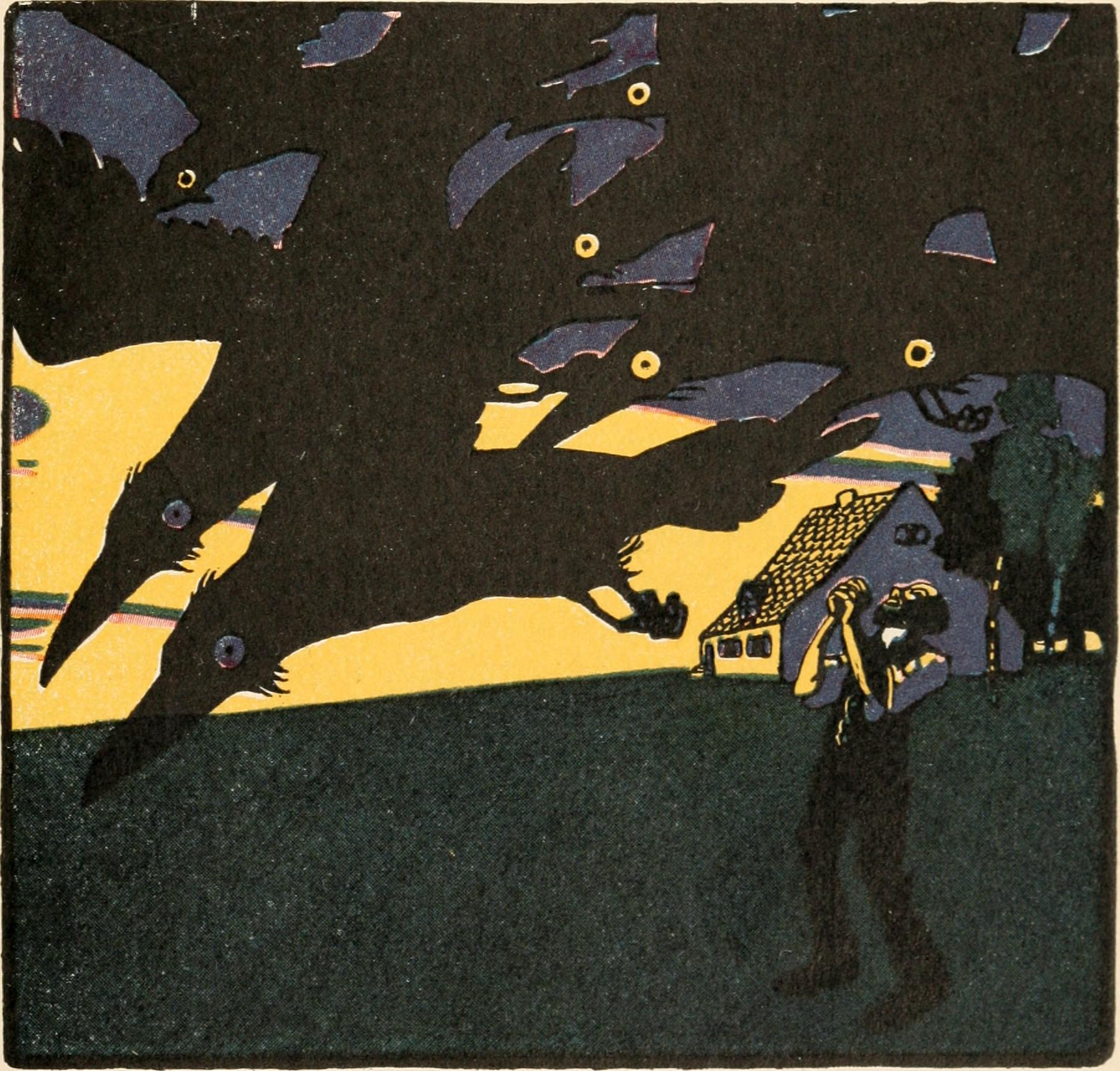 Title: Kinder- und Year: 1910 (1910s) Authors: Grimm, Jacob, 1785-1863 Grimm, Wilhelm, 1786-1859 Weisgerber, Albert, 1878-1915, ill Subjects: Fairy tales Folklore -- Germany Publisher: Wien : M. Gerlach Text Appearing Before Image: 10 Ji Die fieben Raben. %\ Text Appearing After Image: '